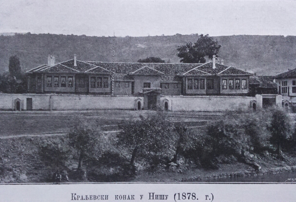 Photo old Nais 1878